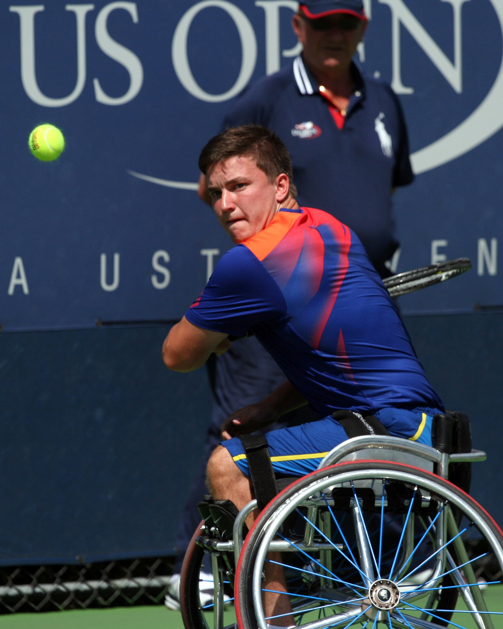 U.S. Open Wheelchairs Friday, Sept. 6, 2013